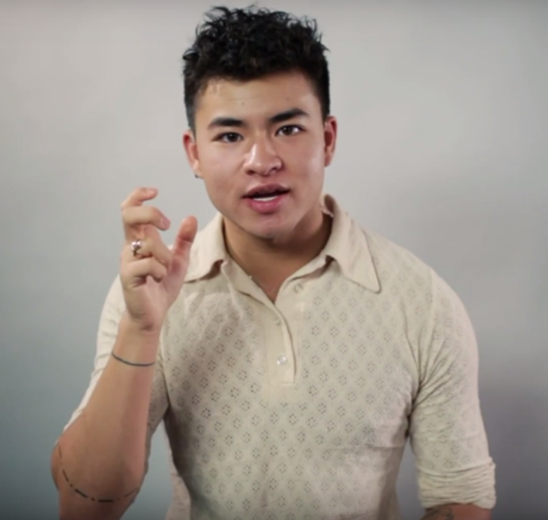 Depicted person: Chella Man – artist